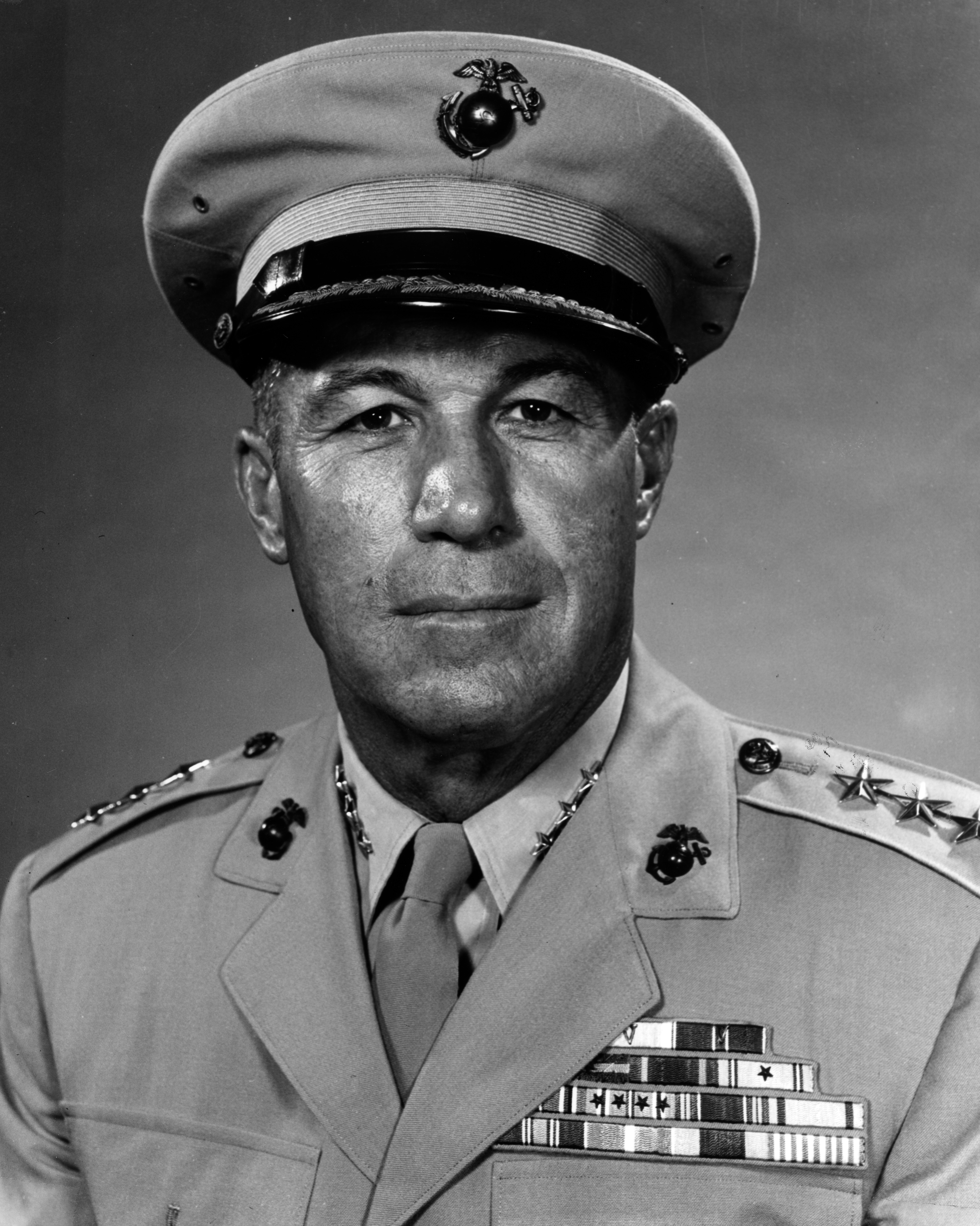 Frederick Leonard Wieseman (March 16, 1908 - August 15, 1994) was a highly decorated officer of the United States Marine Corps with the rank of Lieutenant General. He was the veteran of Pacific War and later served as Commandant of the Marine Corps Schools, Quantico in 1963-1966.